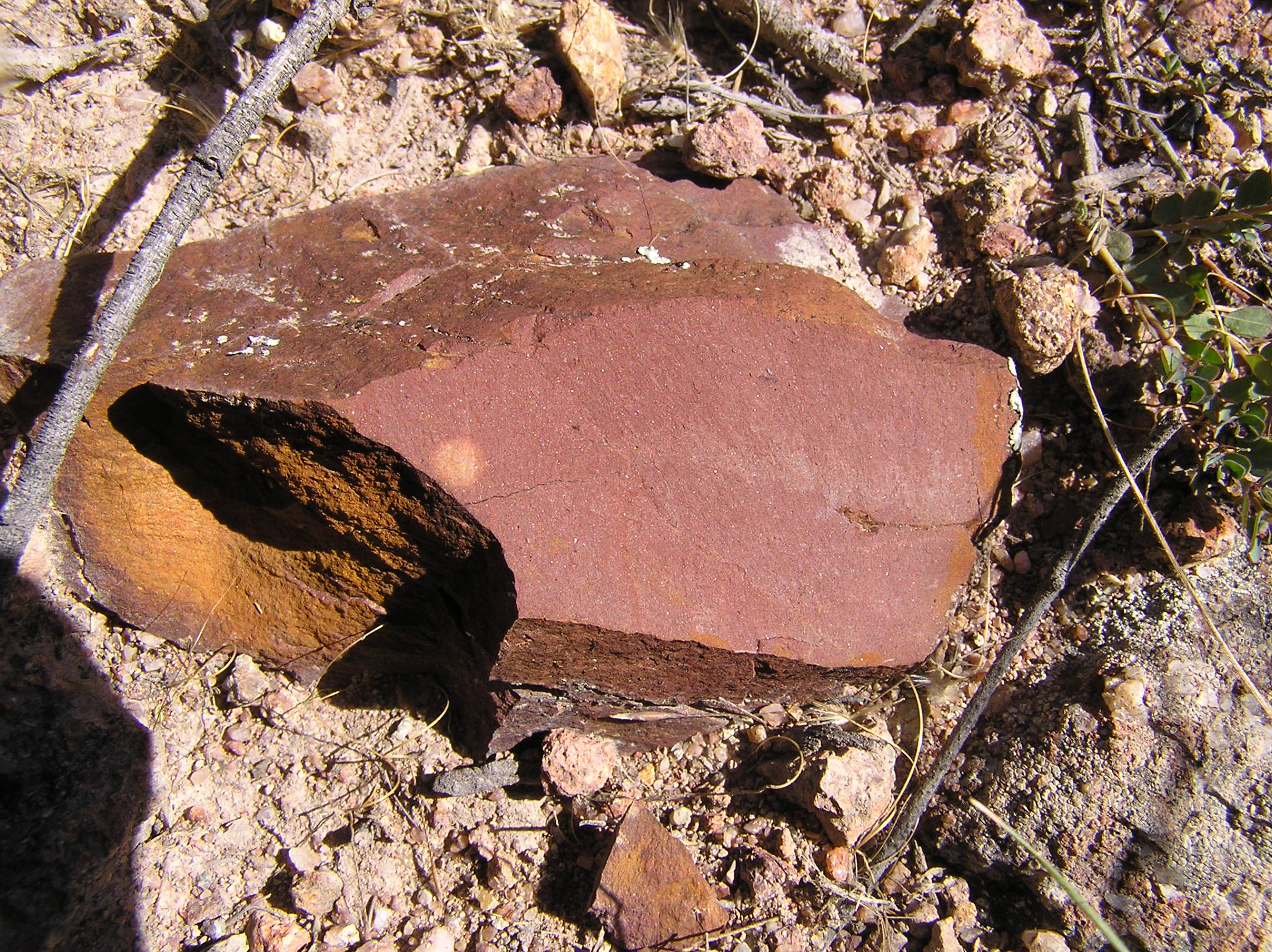 Deakin Volcanics red tuff from near Conder ACT